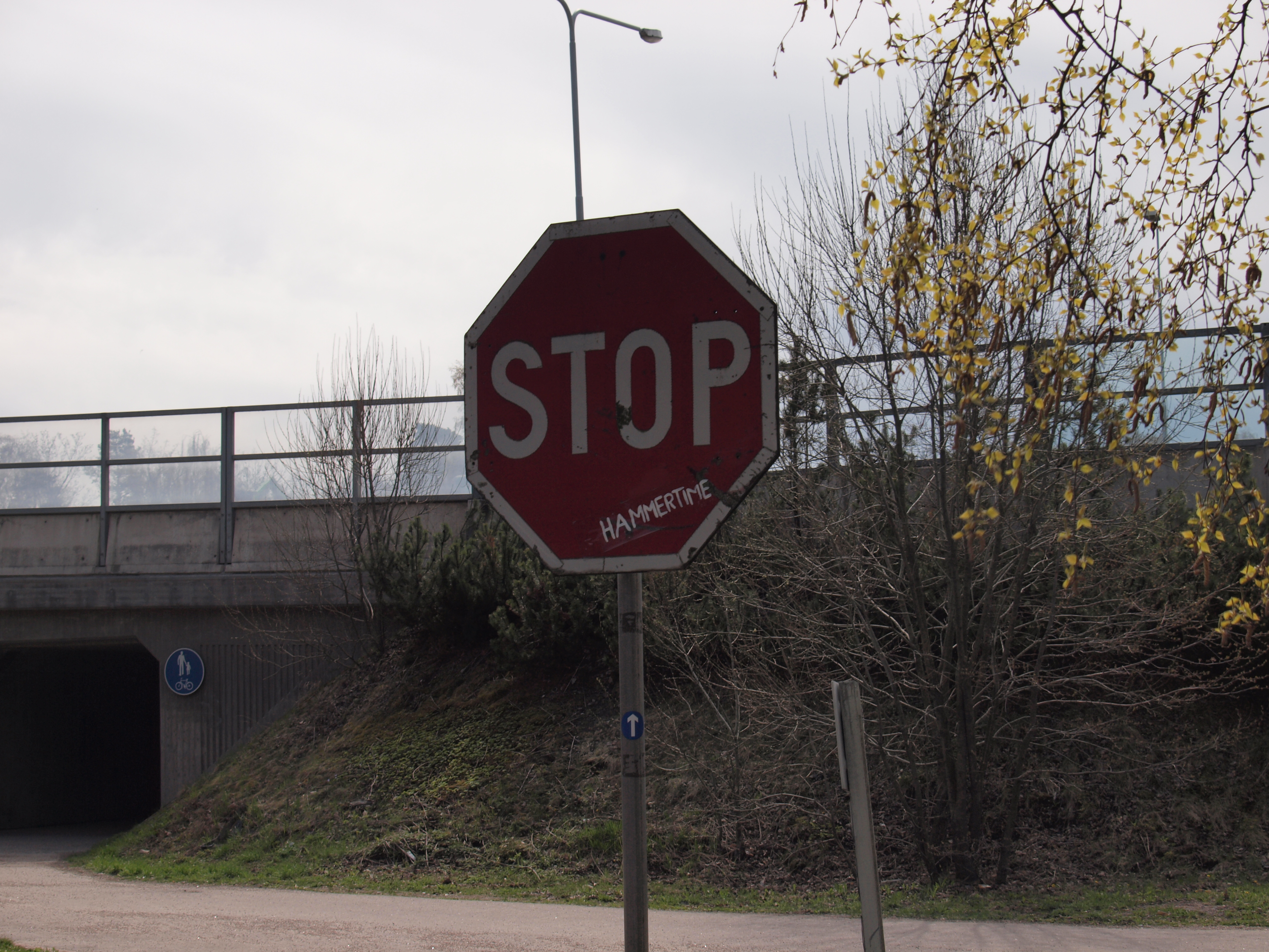 A vandalized stop sign in the extreme west end of Helsinki, Finland, near the border to Espoo. The sign reads "STOP HAMMERTIME" in a reference to the song "U Can't Touch This" by MC Hammer.